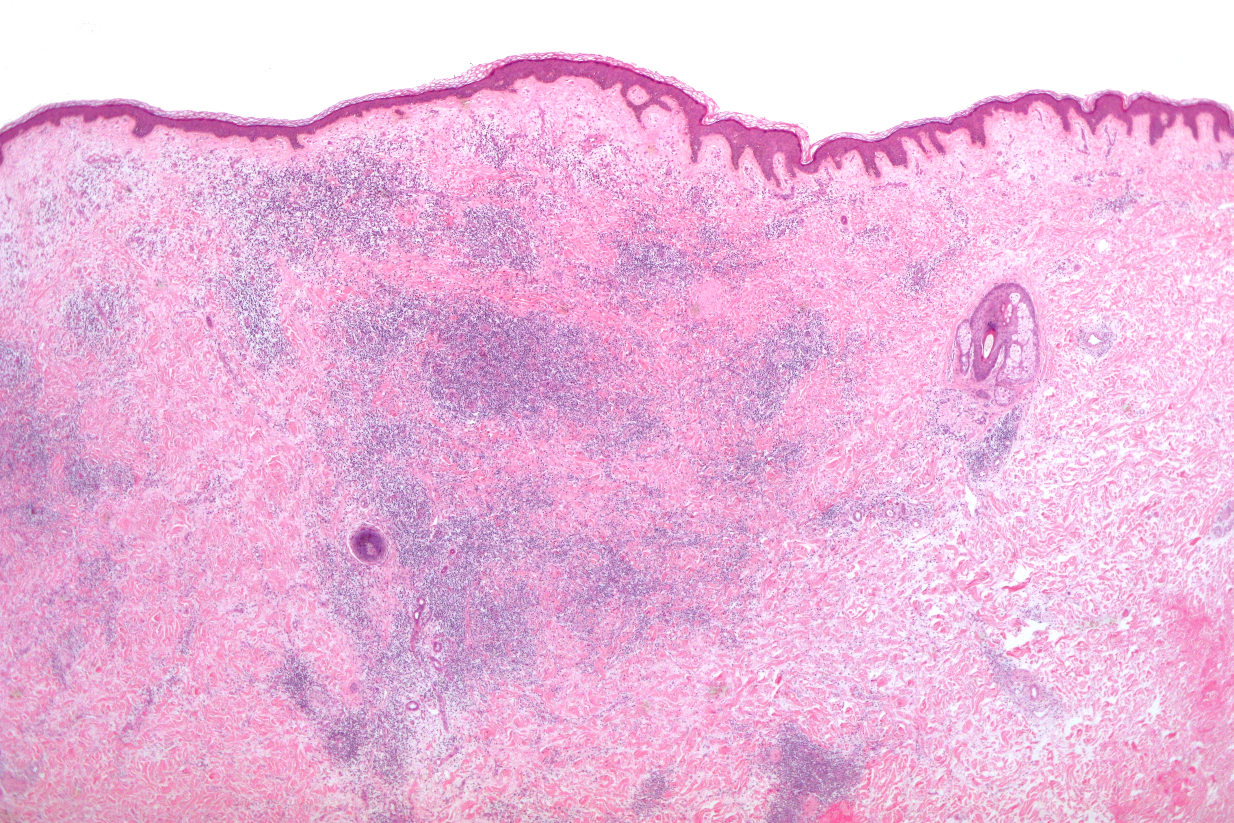 Very low magnification micrograph of a dermal perivascular lymphoeosinophilic infiltrate, as may be seen in an insect bite. H&E stain. Features: Wedge-shaped perivascular inflammation in the superficial dermis consisting of: Lymphocytes. Eosinophils. Differential diagnosis of a superficial dermal perivascular lymphoeosinophilic infiltrate: Drug reactions. Urticarial reactions. Prevesicular early stage of bullous pemphigoid. Insect bites. HIV related dermatoses. Related images Low mag. Intermed. mag. High mag. Very high mag.